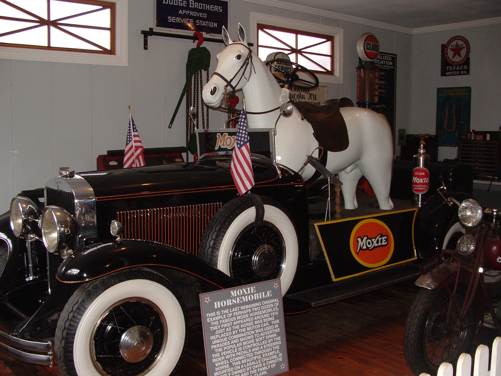 Moxie Horsemobile, used to advertise Moxie-brand soft drink. On display at Clark's Trading Post, Lincoln, New Hampshire.